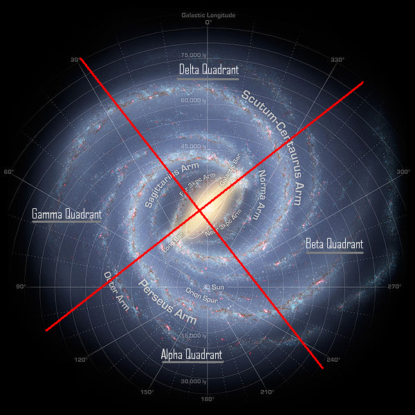 Image of the Milky Way Galaxy. I divided the Galaxy into four Galactic Quadrants